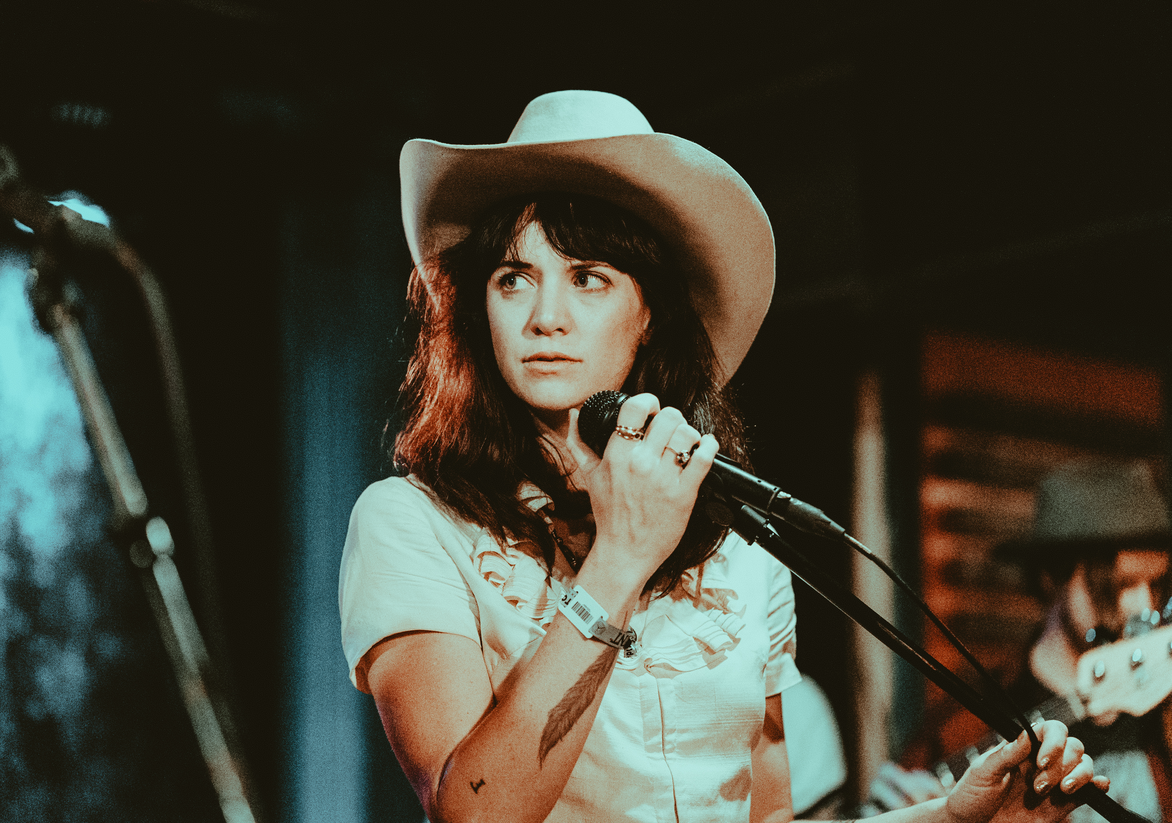 Nikki Lane Performing with The Texas Gentlemen at Dan's Silverleaf at Oaktopia Festival in Denton, TX.